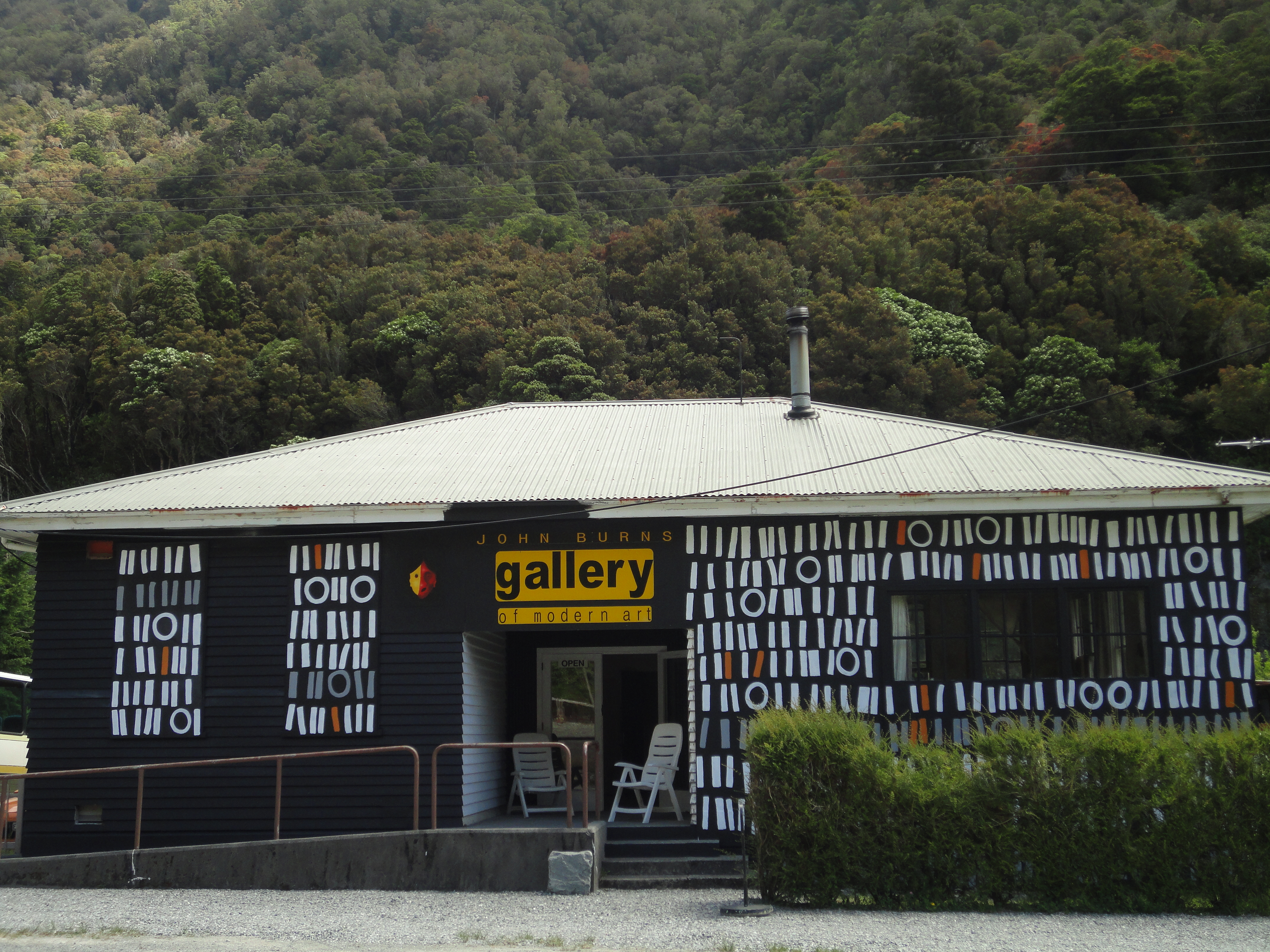 John Burns Gallery of Modern Art in the middle of the Southern Alps